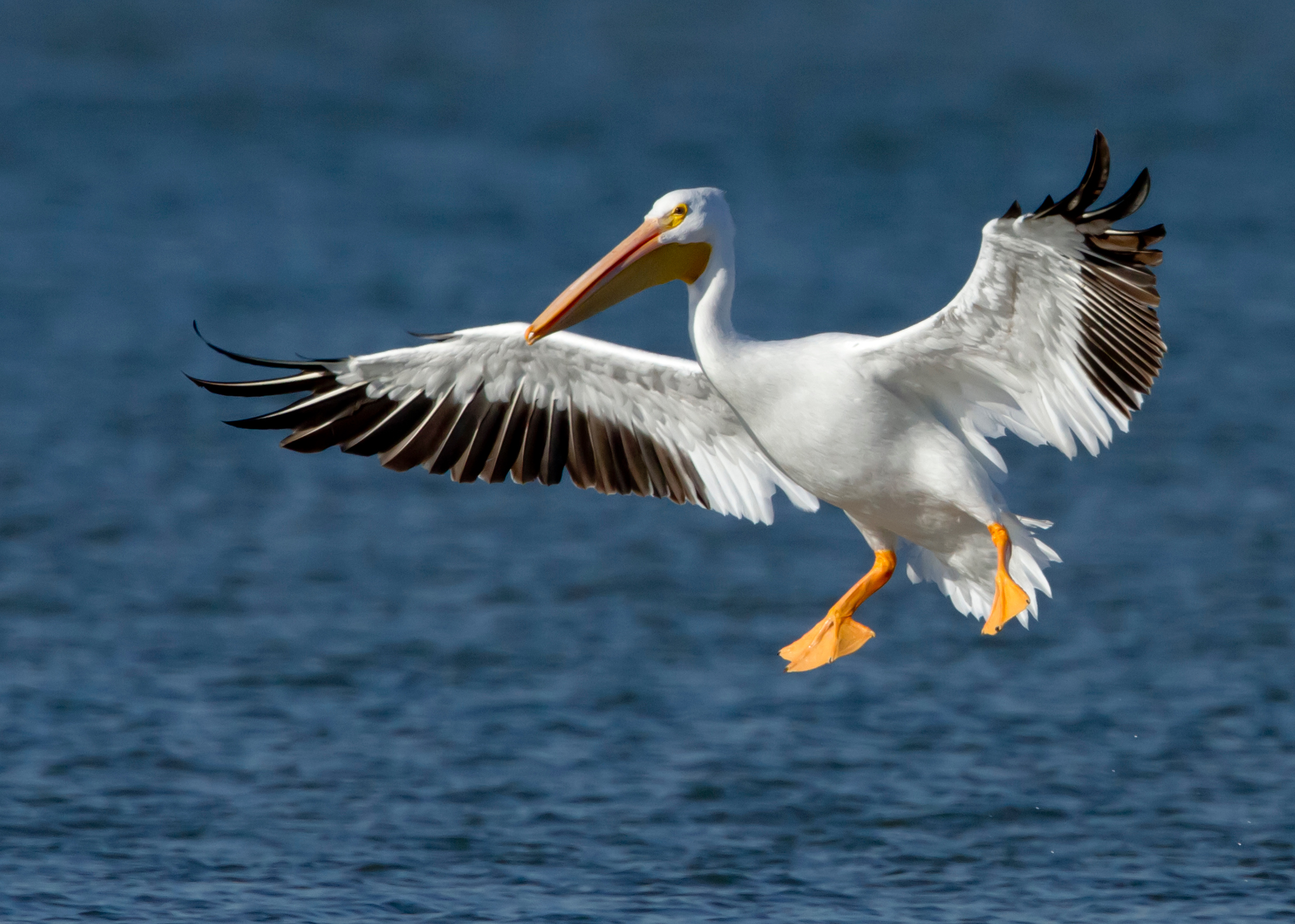 American White Pelican flying in Dallas, USA.